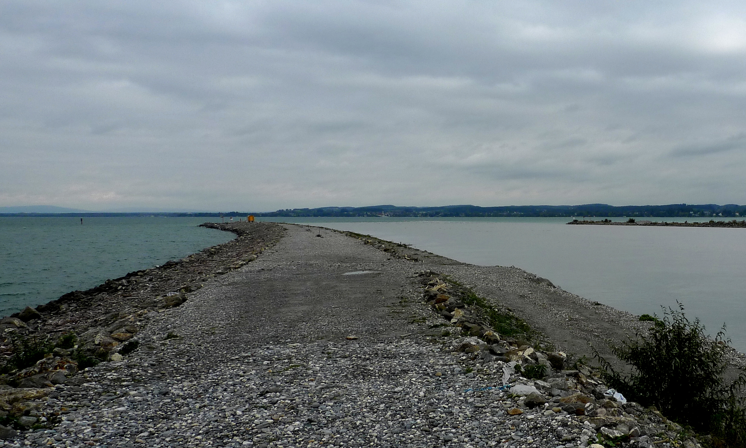 Rhine estuary into Lake Constance